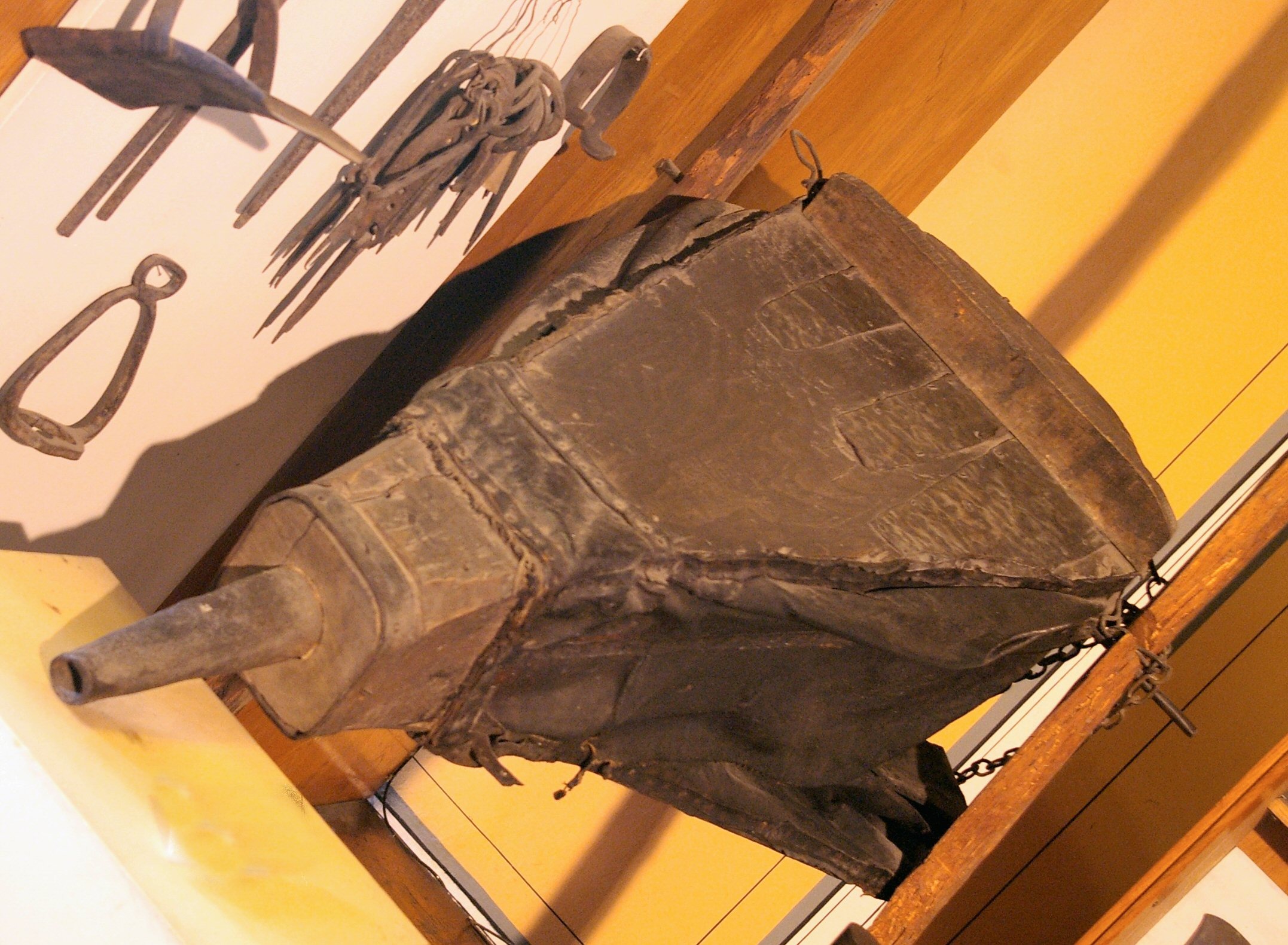 Blacksmith's bellows, Plovidev museum of ethnology.